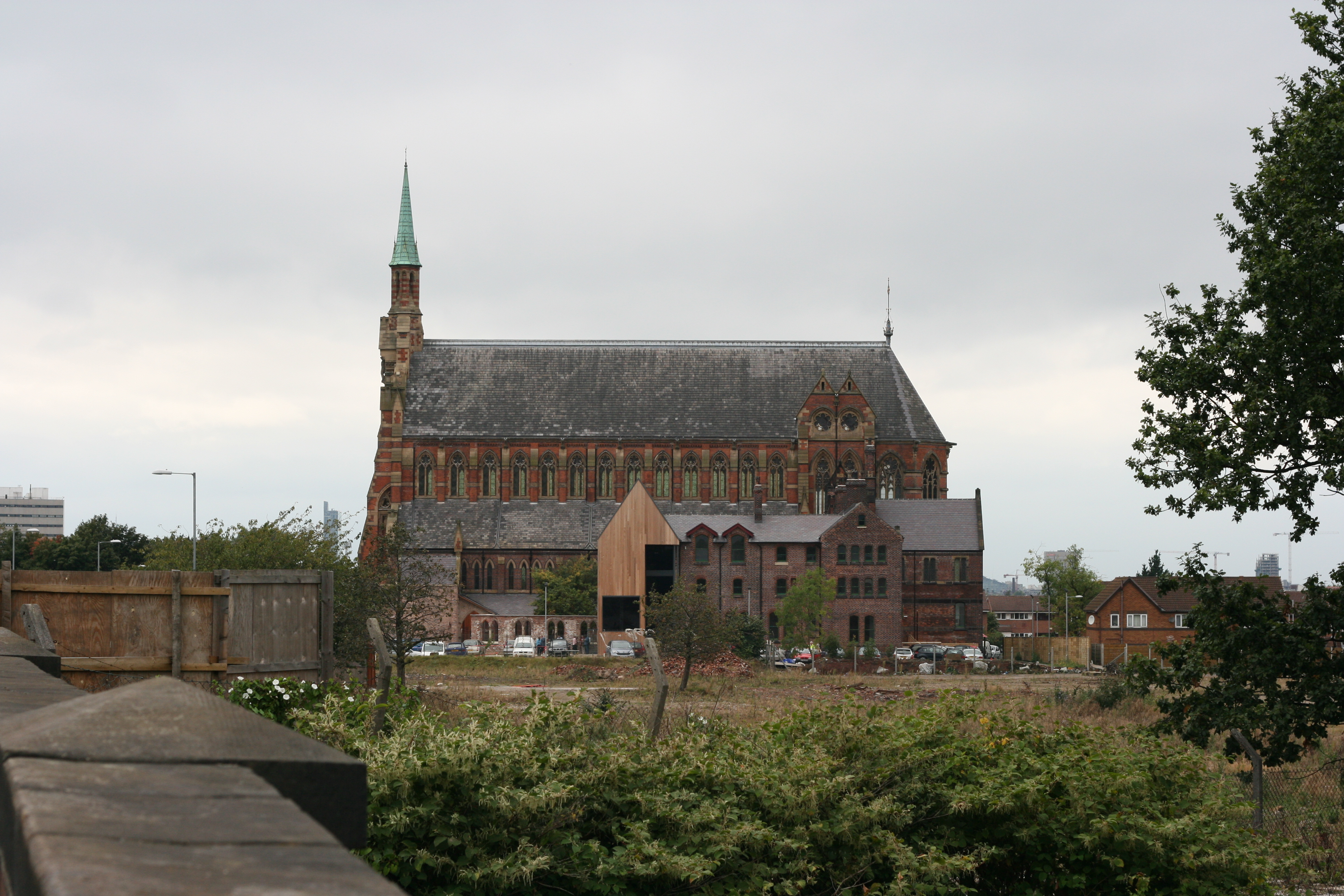 It looks like a huge red brick spaceship, towering over the nearby housing.